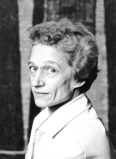 Photograph of the Finnish textile designer Dora Jung (1906–1980).